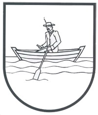 Chop COA_old